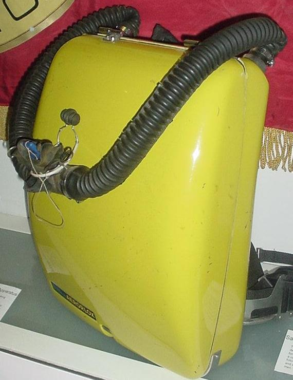 I took this photo. Aerorlox oxygen rebreather with liquid oxygen tank, in a coalmining museum.